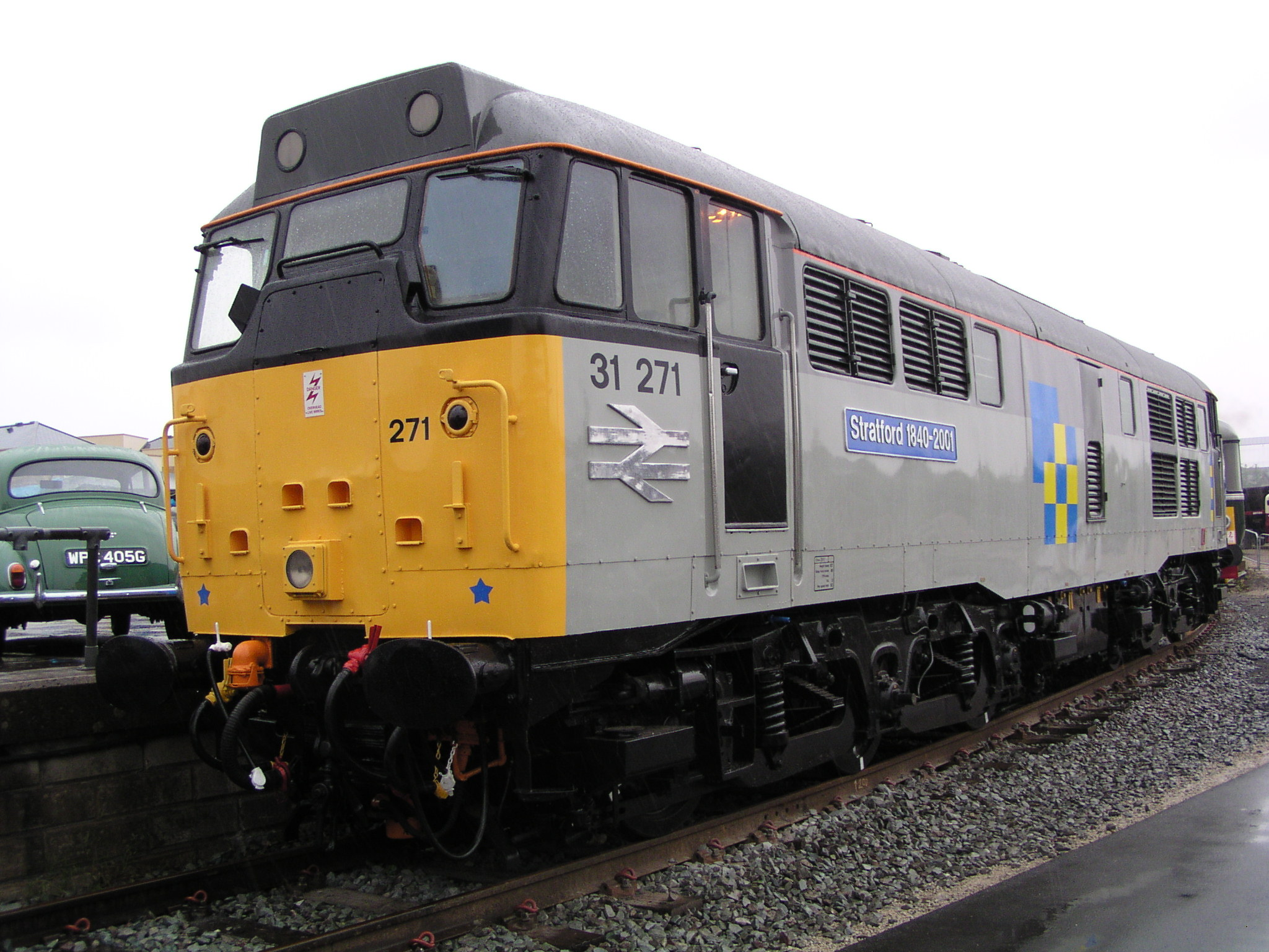 BR Class 31, no. 31271 'Stratford 1840-2001' at York Railfest on 3rd June 2004.